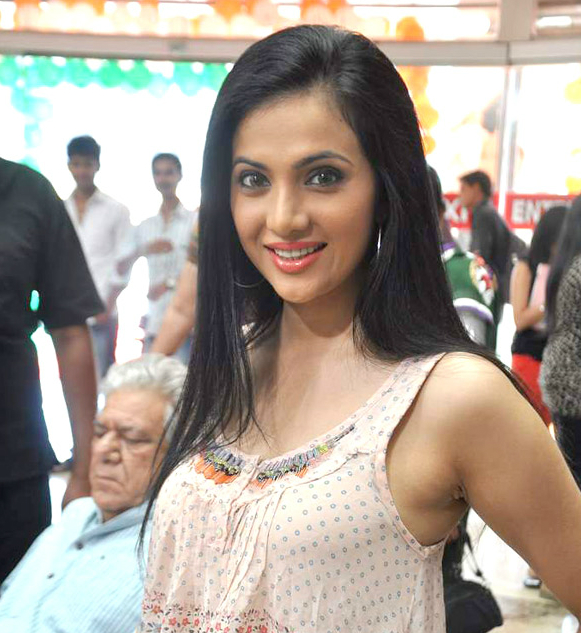 Shilpa Anand On location shoot of film 'The Mall'